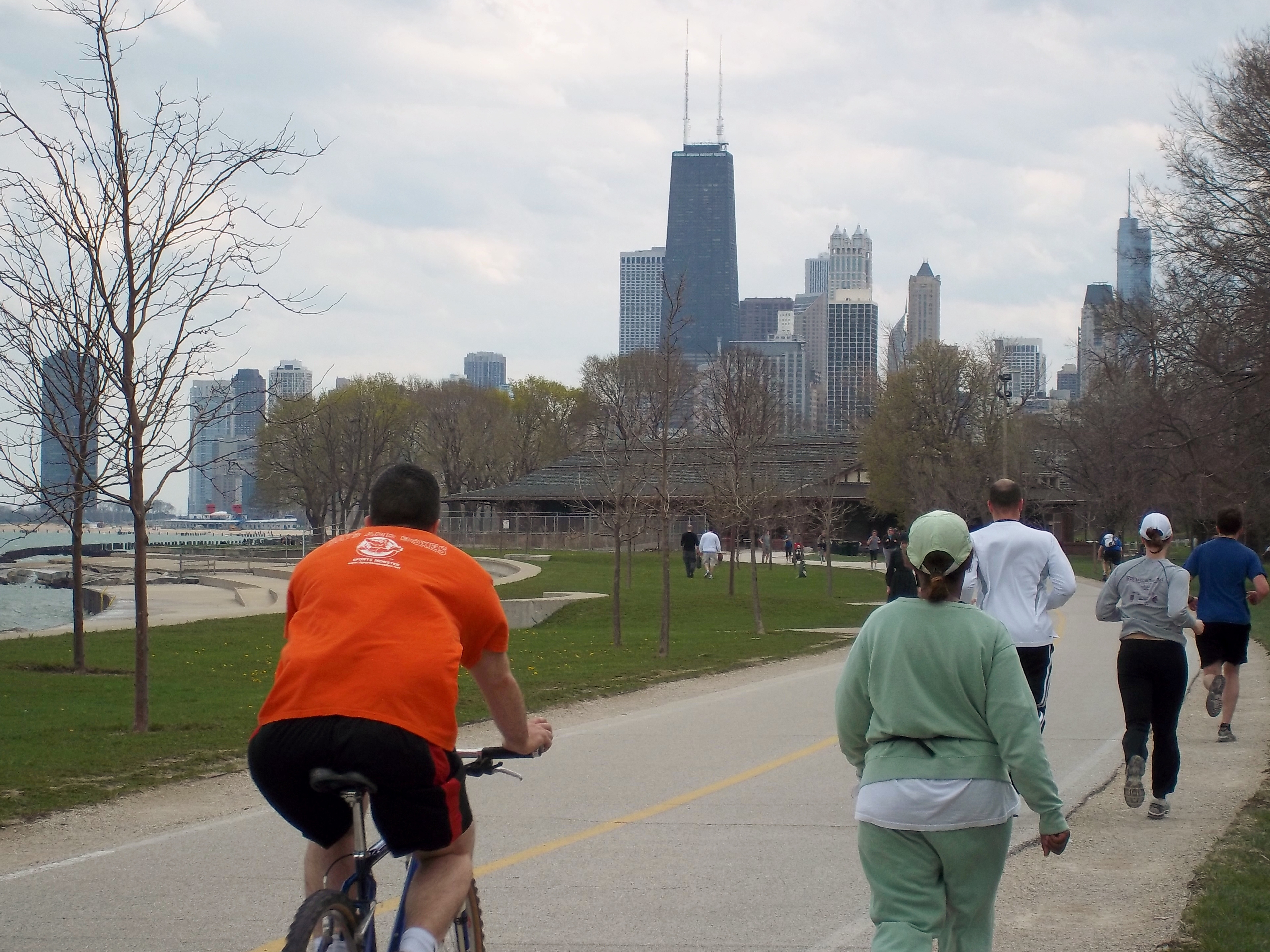 Chicago Lakefront Trail near Fullerton